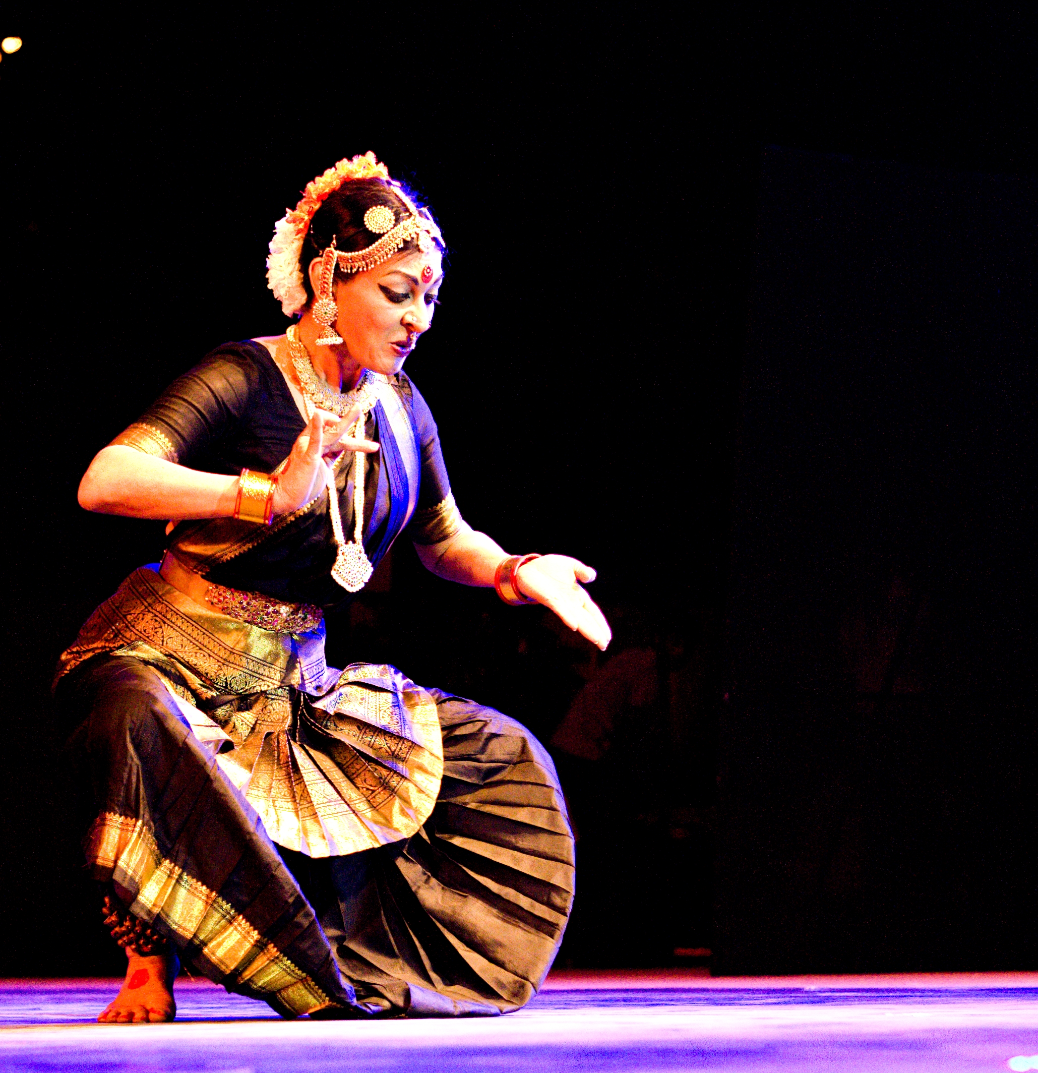 Mallika Sarabhai during her performance in the opening ceremony of Saarang 2011 at Indian Institute of Technology Madras